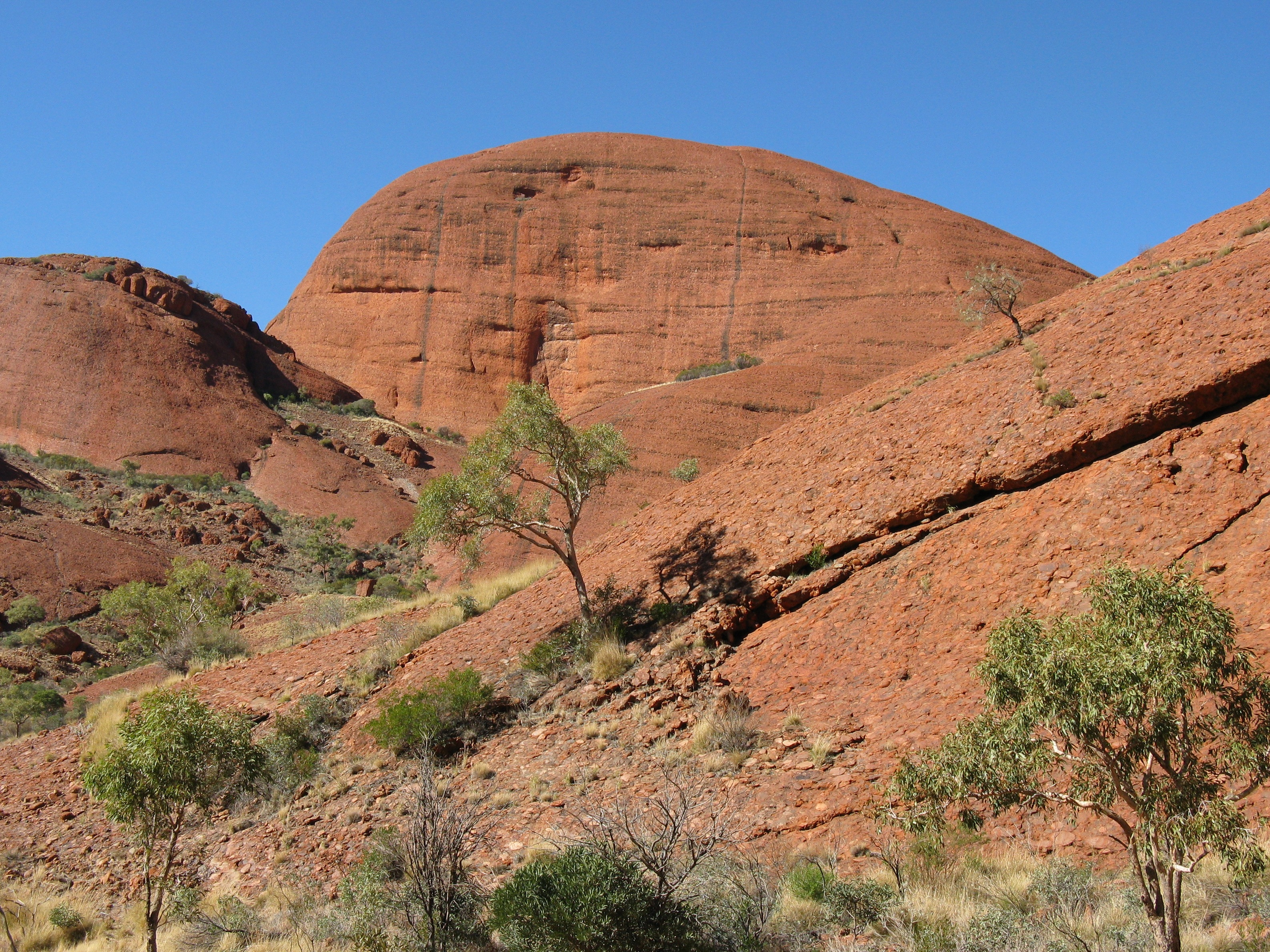 Among the domes on the Valley of the Winds walk in Kata Tjuta